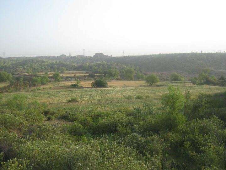 This is a view of south side of the village showing the green grassy hills and planes.